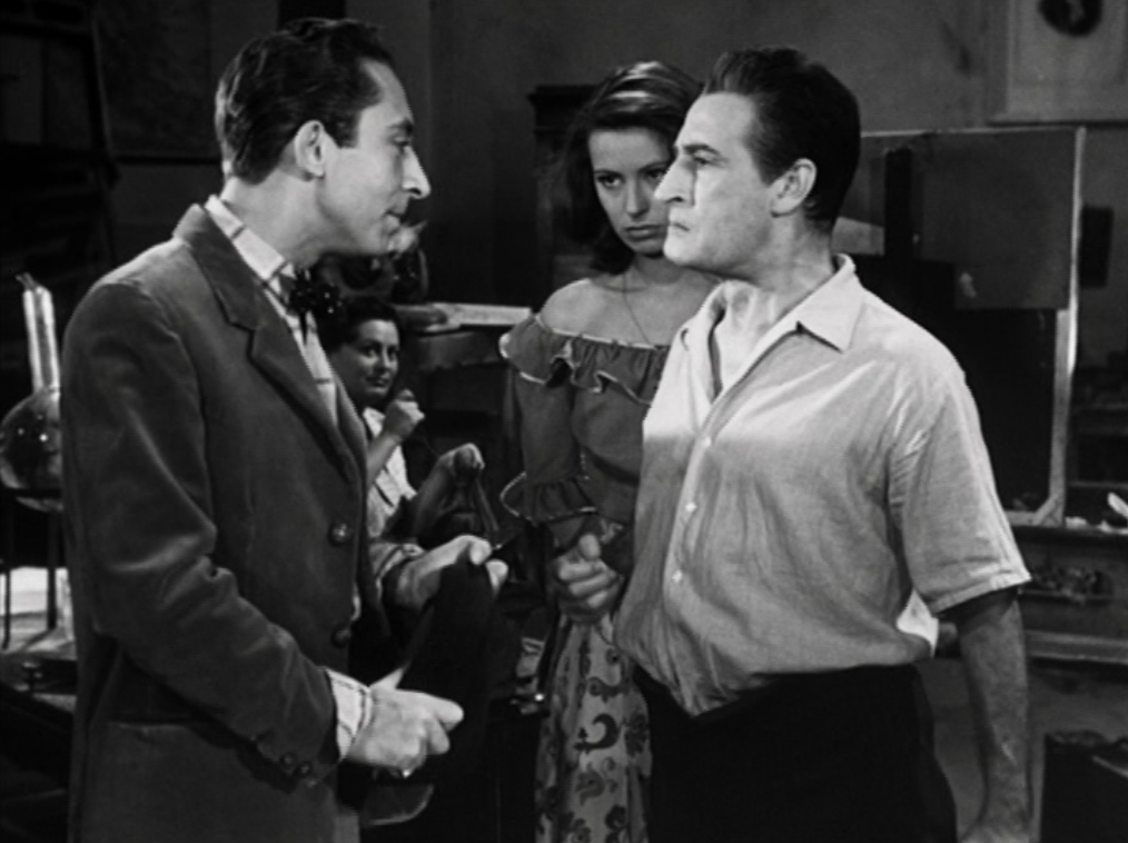 Screenshot from Totò cerca casa (1949)